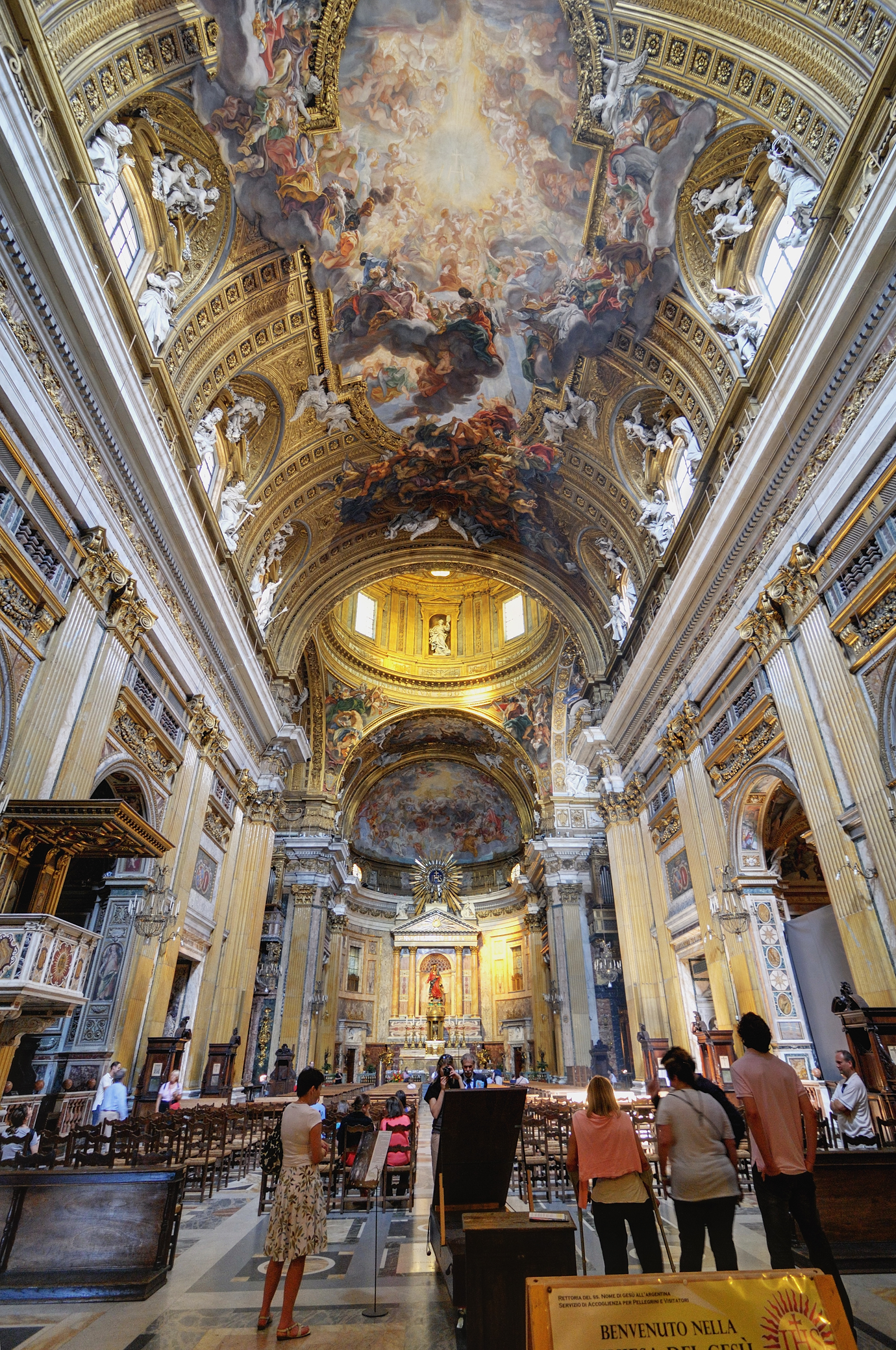 The central nave of the Chiesa del Santissimo Nome di Gesù all'Argentina, Rom, with the ceiling fresco by Gaulli